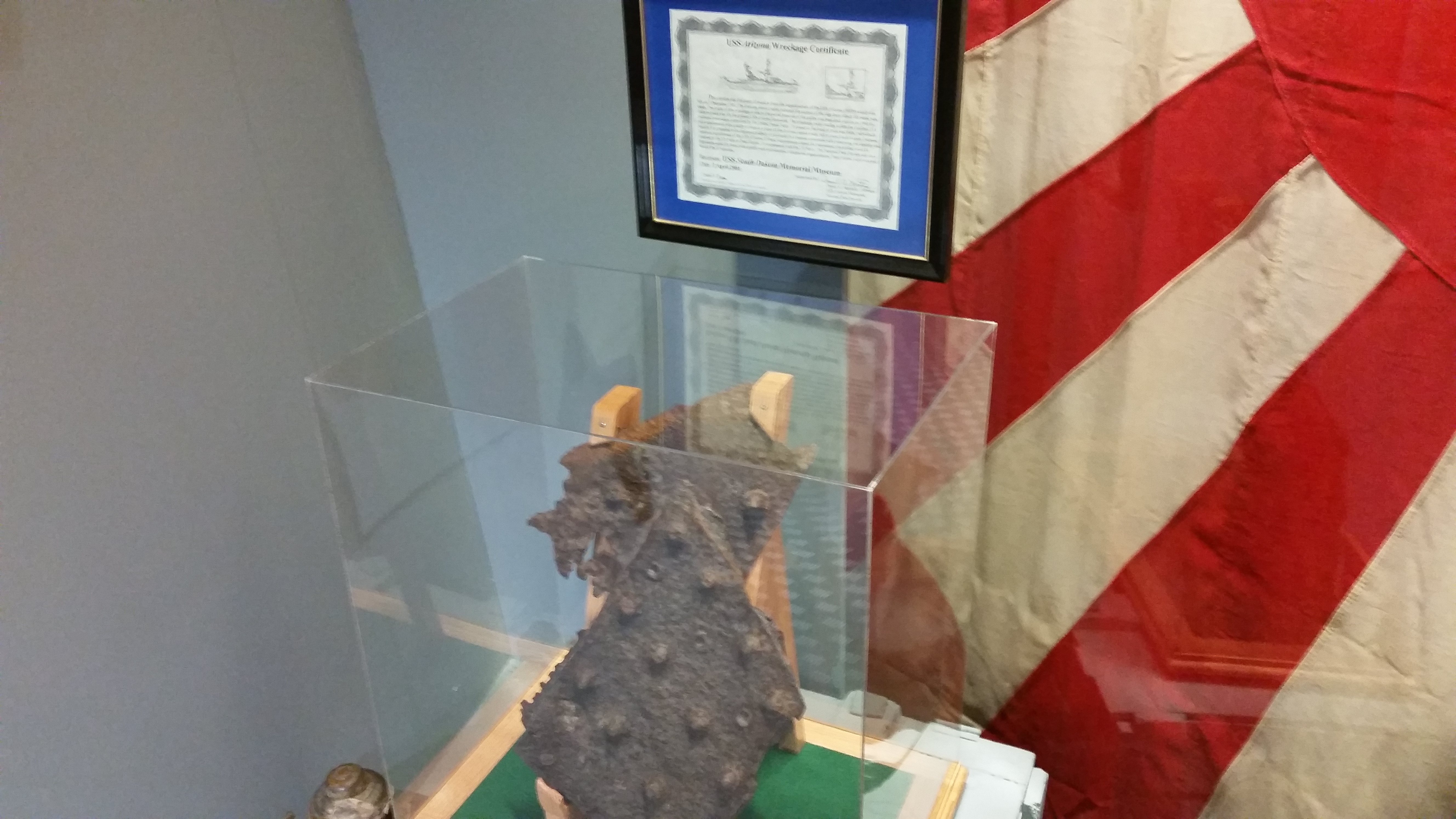 Steel from the Battleship Arizona at the USS South Dakota Memorial.